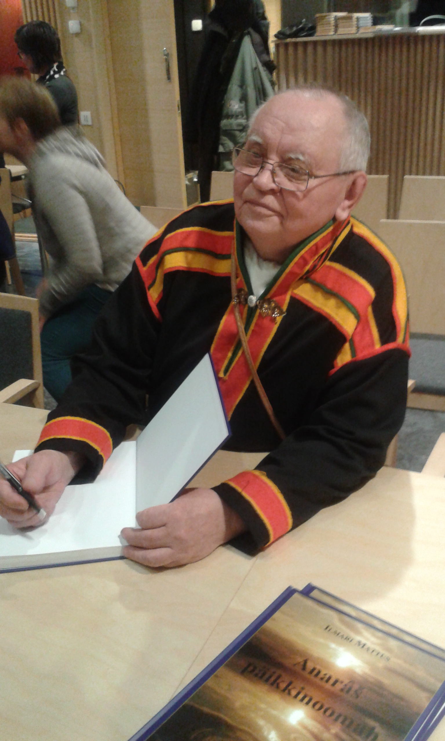 Uccpárnáá Vuoli Ilmar (Ilmari Mattus) at the launch of his new book Anarâs päikkinoomah in 2015 at Sajos in Inari, Finland